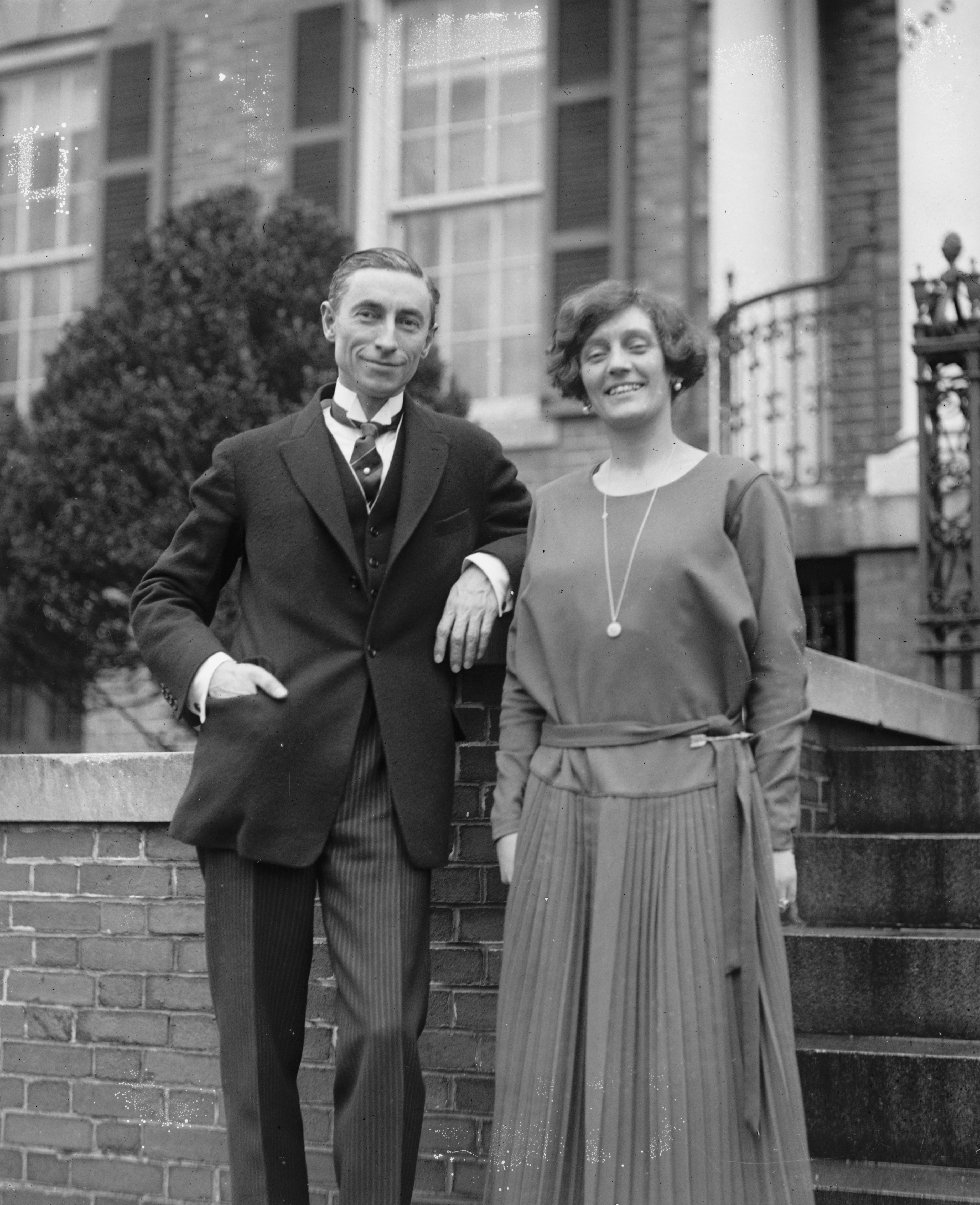 Title: Hugh Gibson & wife, 3/20/22 Abstract/medium: National Photo Company Collection (Library of Congress) Physical description: 1 negative